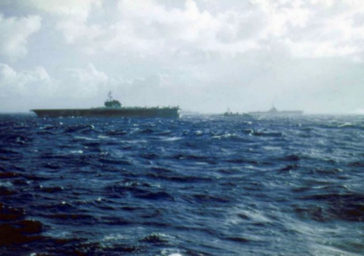 The U.S. Navy aircraft carrier USS Saratoga (CVA-60) during NATO "Operation Strikeback", in 1957. An Essex-class carrier is visible in the background, either USS Essex (CVA-9) or USS Wasp (CVS-18).